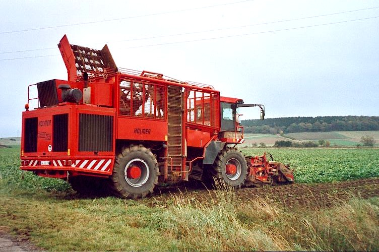 Holmer Terra Dos sugarbeet harvester while driving in the area